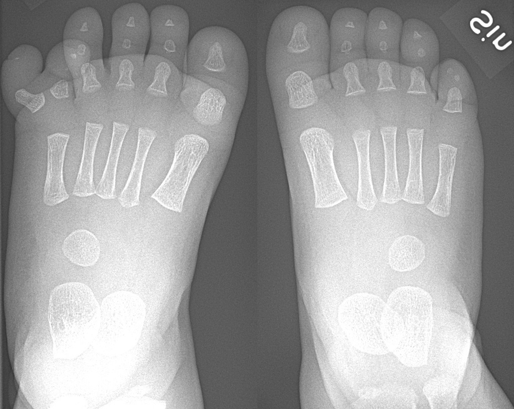 X-ray of the feet of a 8.5 months old male, showing polydactyly in the form of right-sided duplication of the right little toe, with two toes (fifth and sixth) apparently forming joints with the fifth metatarsal bone, which is mildly broadened distally. The duplicated toes have almost normal growth. The fifth toe has mild varus angulation, and the sixth toe has substantial valgus angulation. No other abnormalities. The patient had no other birth defects, and no family history thereof.